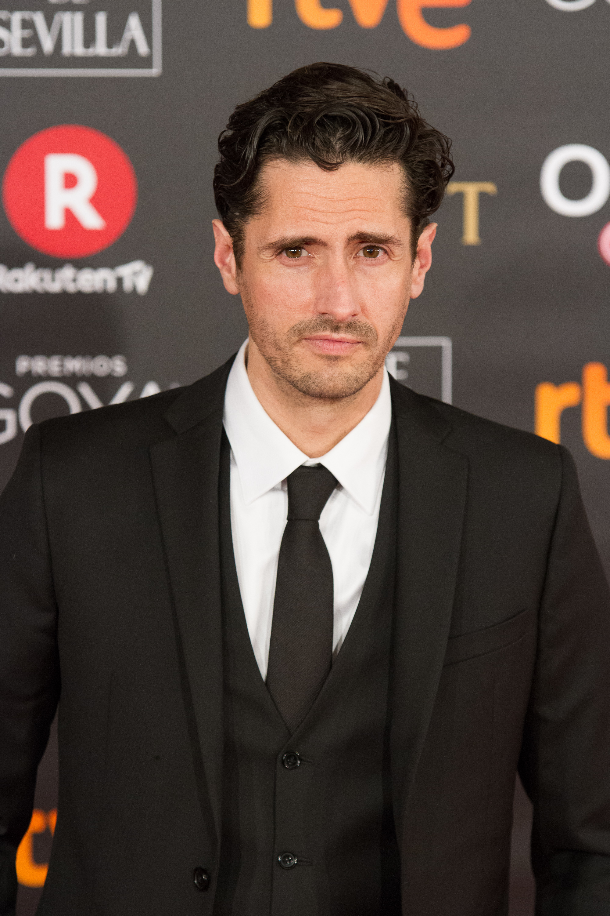 32nd Goya Awards, 2018.